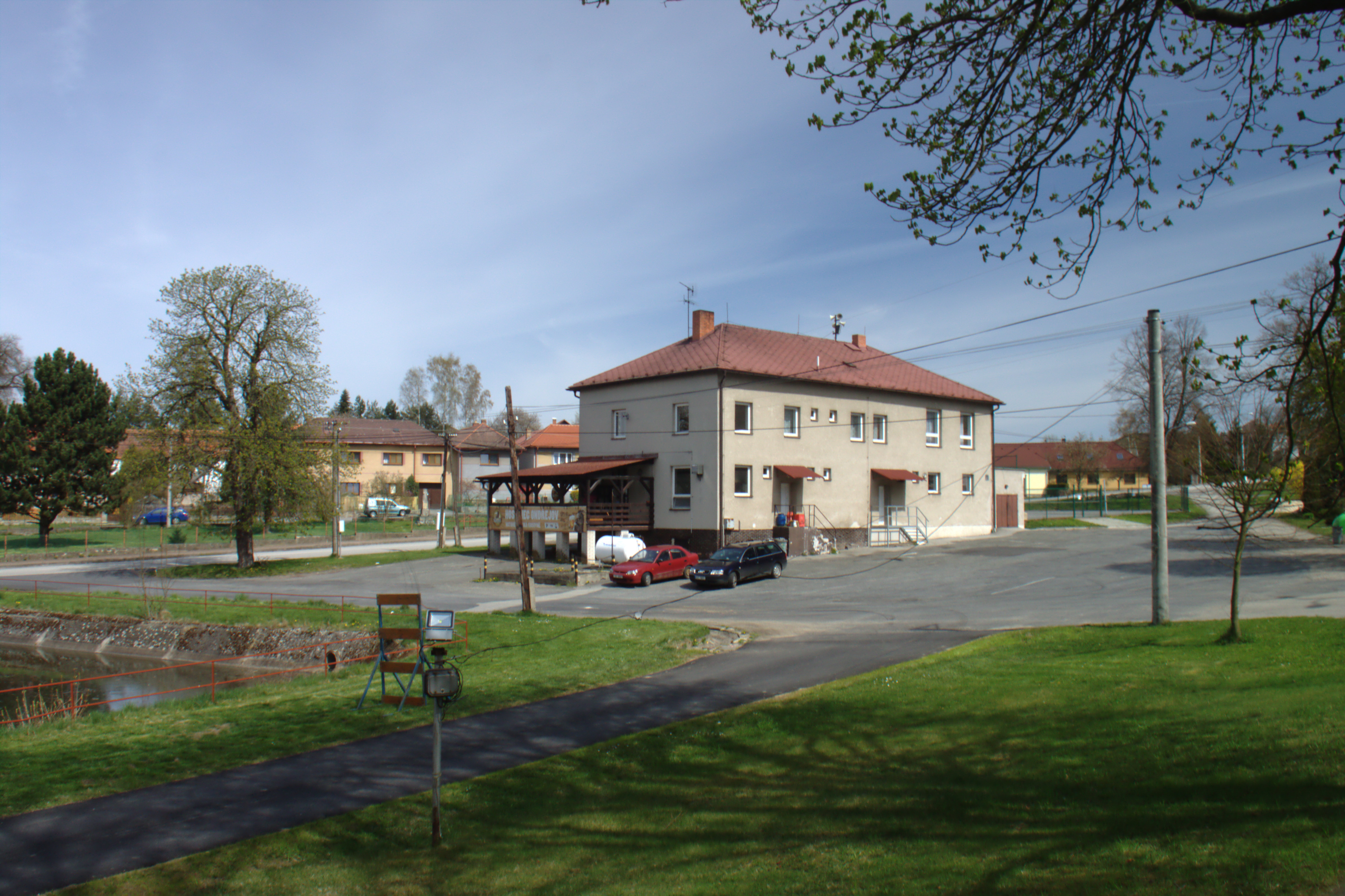 A meadow and a pub in the village of Ondřejov/Pelhřimov District, Vysočina Region, CZ